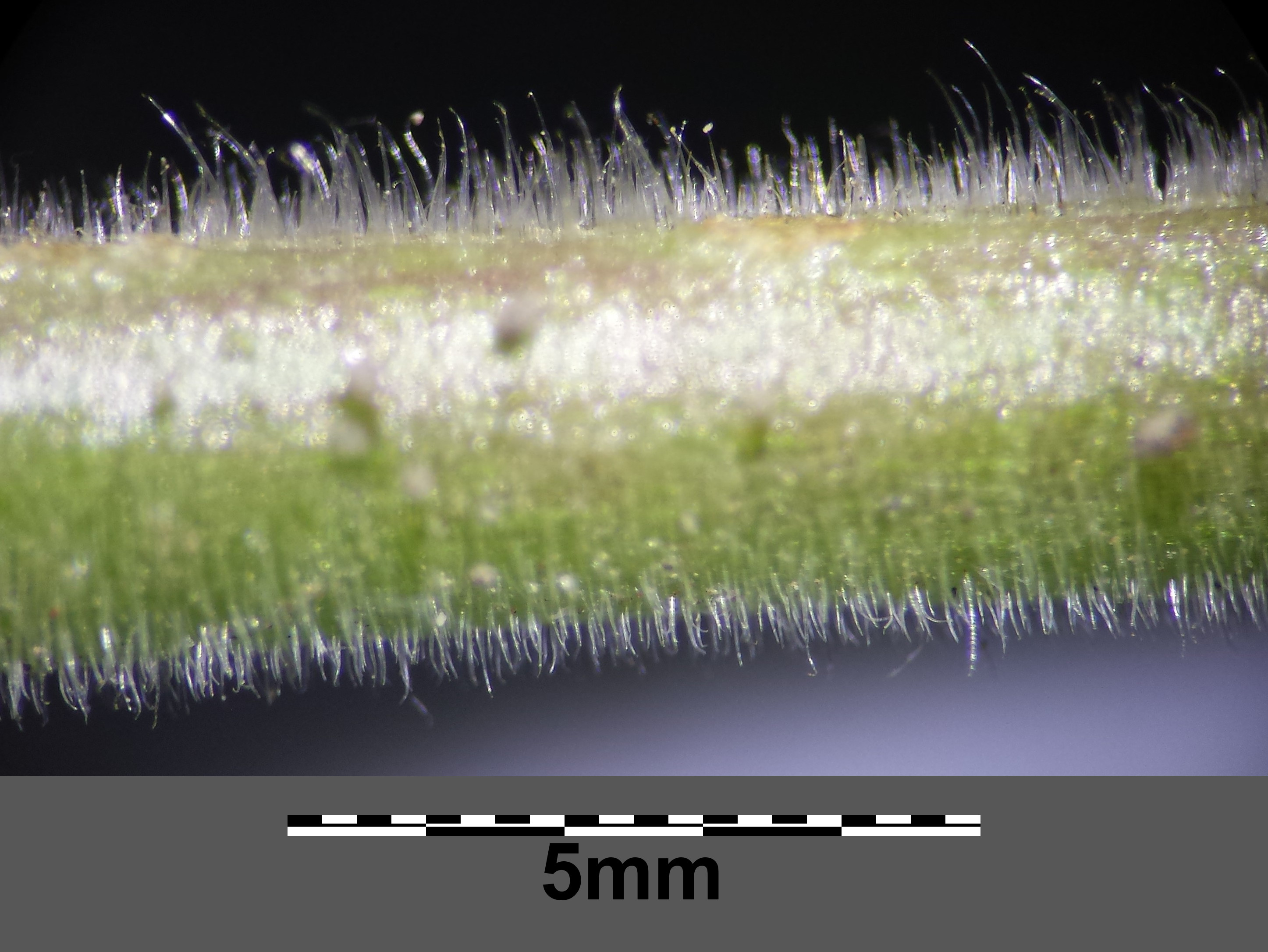 Stem with glandular hairs Taxonym: Datura innoxia ss Fischer et al. EfÖLS 2008 ISBN 978-3-85474-187-9 Location: next to Hatzenbach, district Korneuburg, Lower Austria - 225 m a.s.l. Habitat: quarry